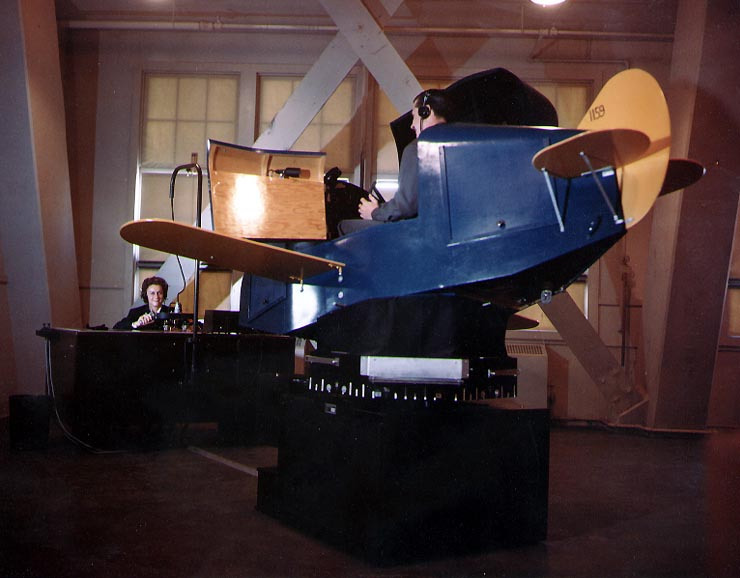 U.S. Navy Specialist (Teacher) 1st Class Marjorie Kane, USNR(W) runs "ground" support for Ensign Victor L. McCallen, who is receiving aviation training in a Link flight simulator at Naval Air Station Santa Ana, California (USA), circa mid-1945.